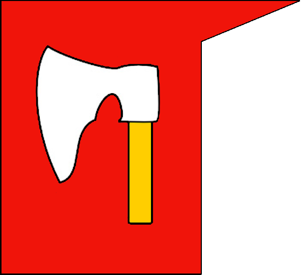 Banner of Topór Coat of Arms